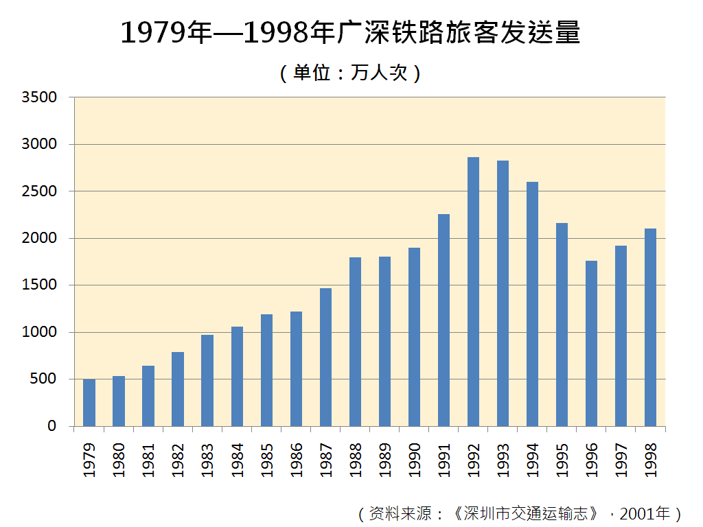 Statistical chart of the passenger traffic of Guangshen Railway during 1979 -1998.